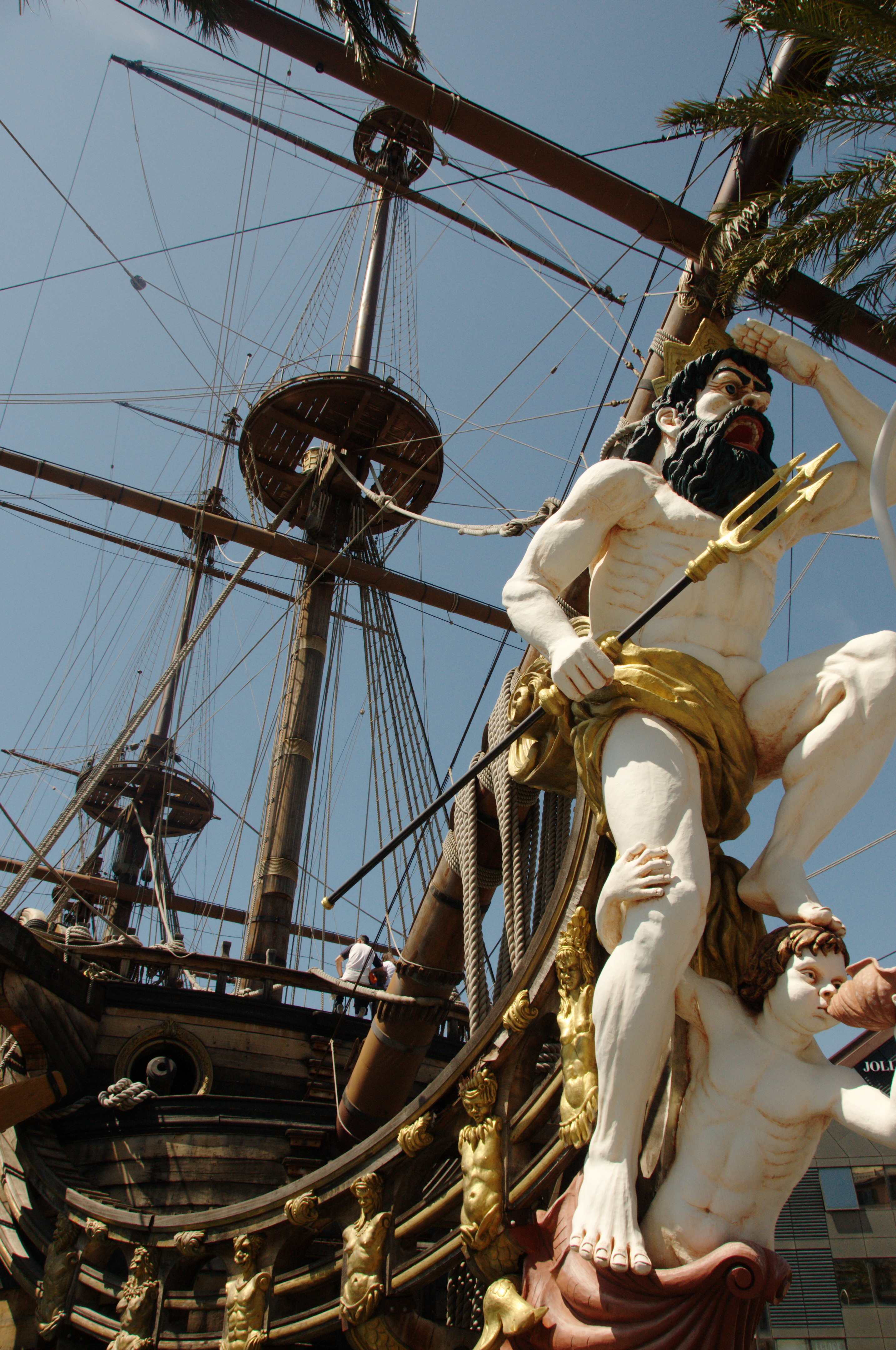 Boat used for the movie Pirates from Roman Polanski in Genova, Italy